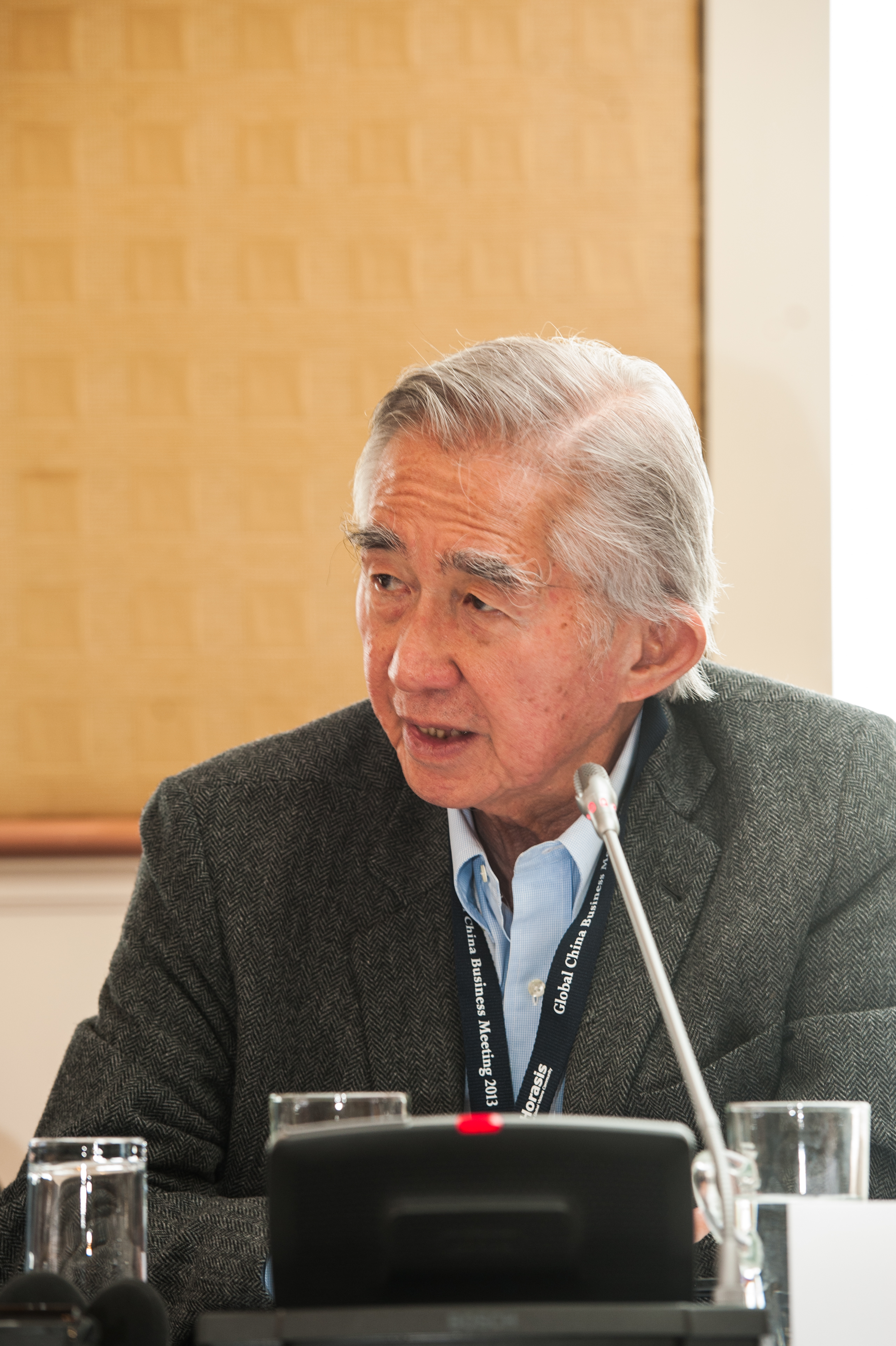 Liu Thai Ker, Chairman, Centre for Liveable Cities, Singapore, , at the Horasis Global China Business Meeting 2013